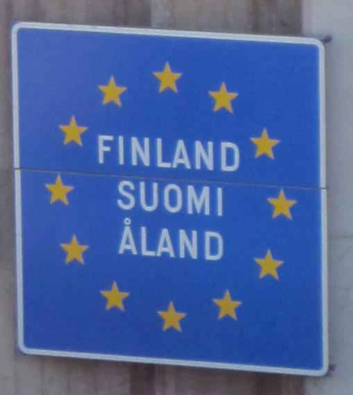 Schengen border sign: Finland, Åland Islands, Mariehamn, Finland check usage